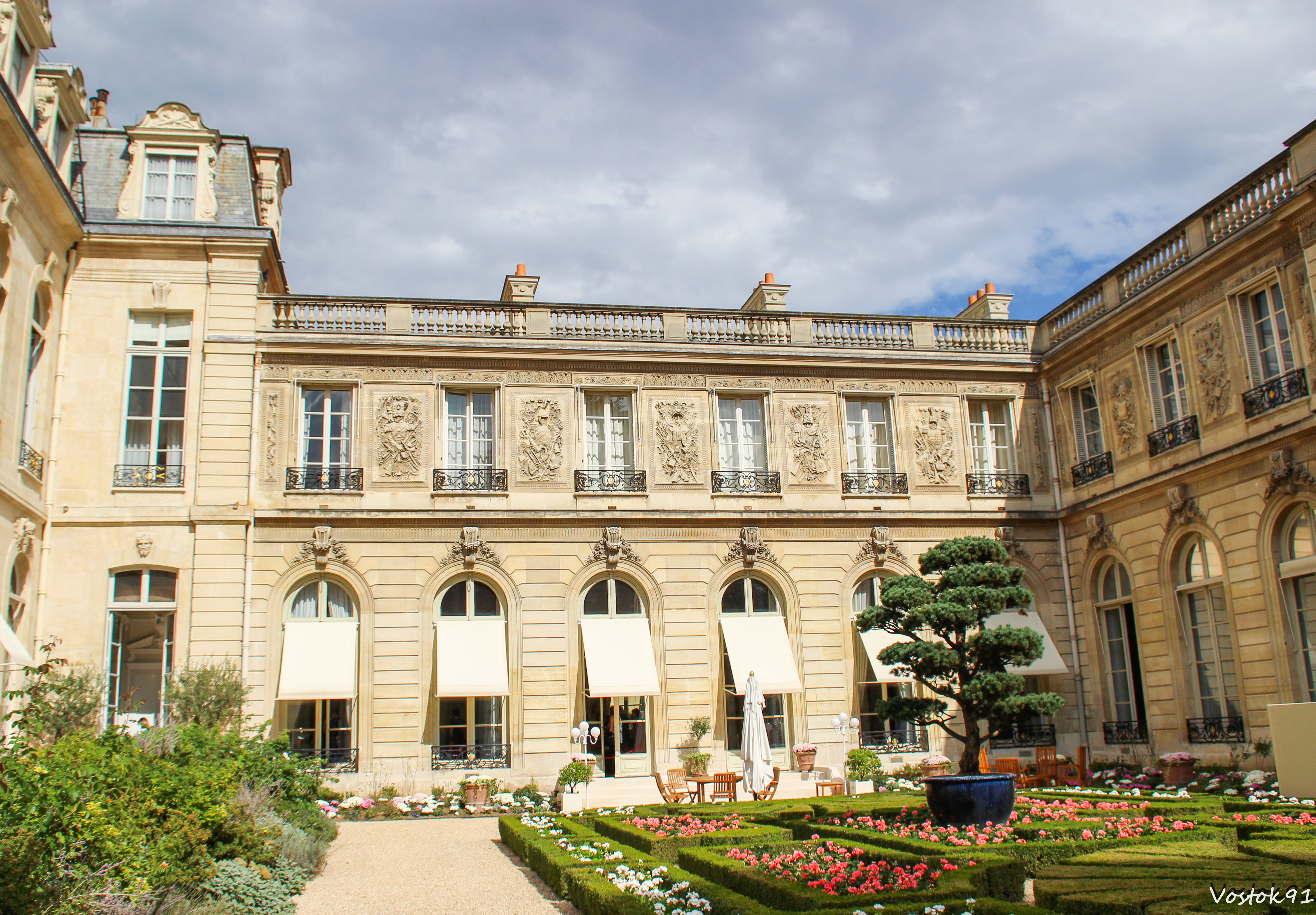 Palais de l'Élysée, Paris. European Heritage Days 2014.